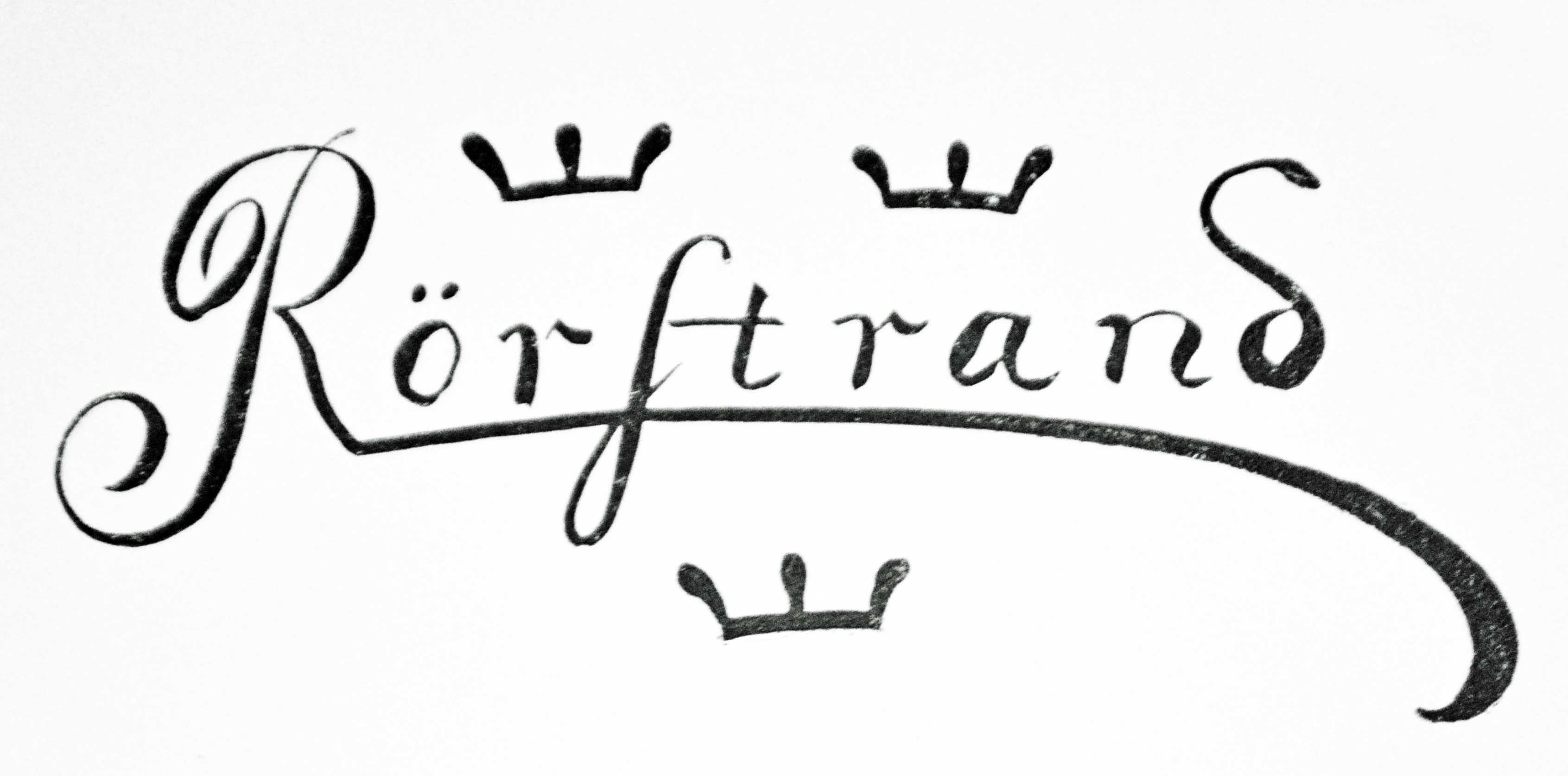 Rörstrands porslinsfabrik logo from A 1897 catalogue